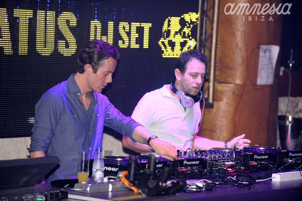 10.07.12 - Together. More pics at